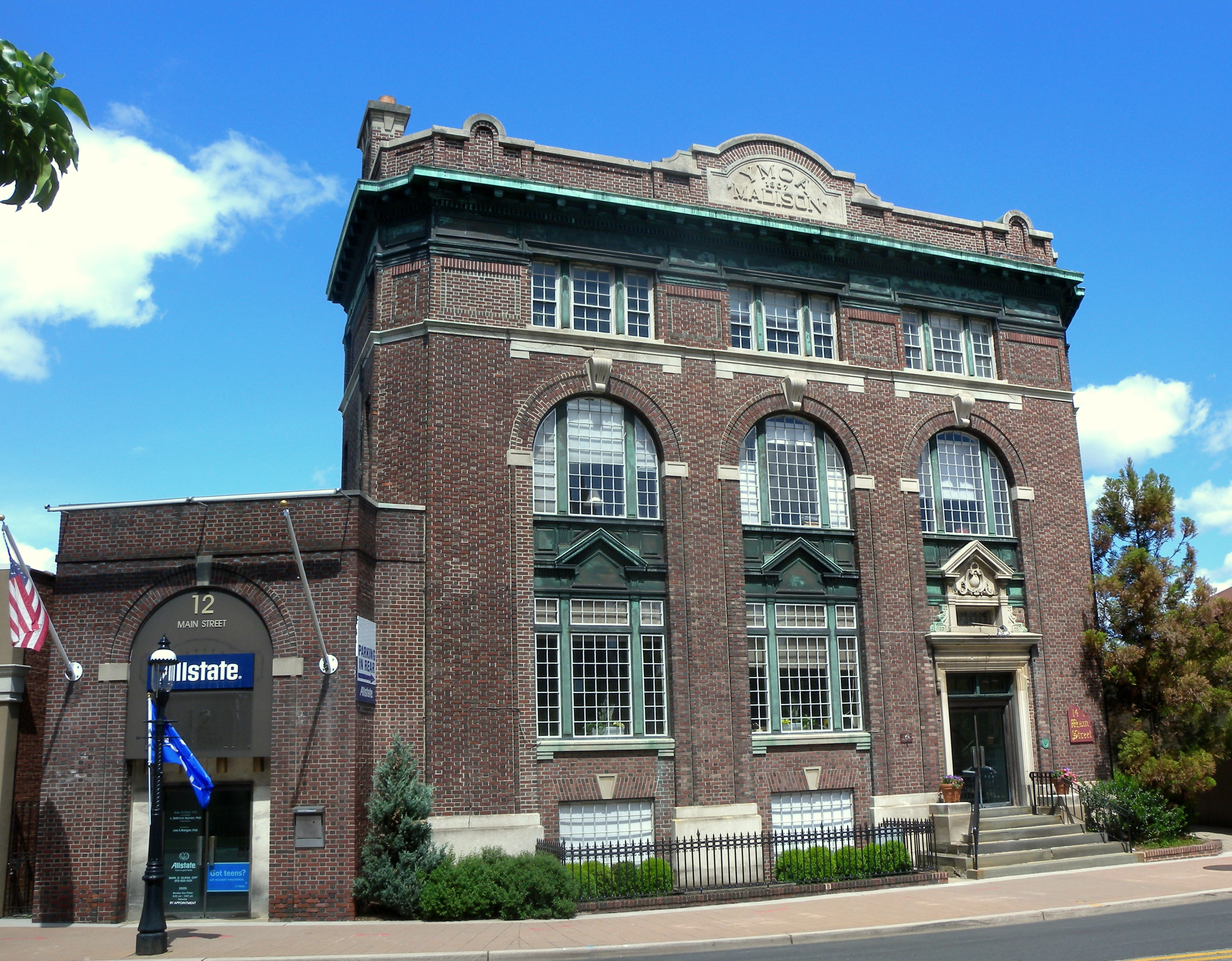 Looking east at Madison YMCA on a sunny midday.